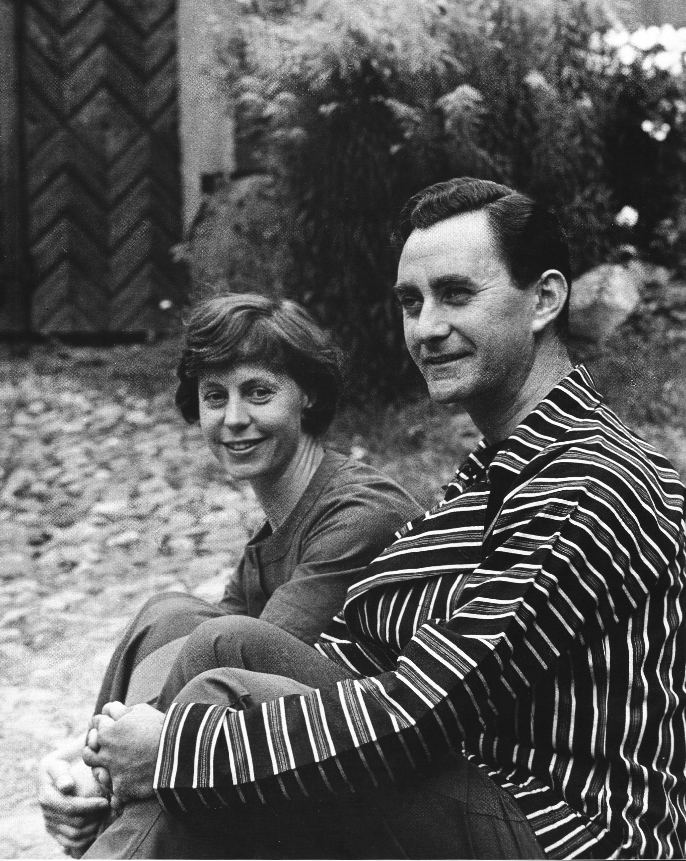 Publicity photograph of the American-Finnish photographer and goldsmith Oppi A. J. Untracht (1922–2008) and his wife, the Finnish designer Saara Hopea (1925–1984). (First published in Hopeapeili magazine No. 9/1960.)